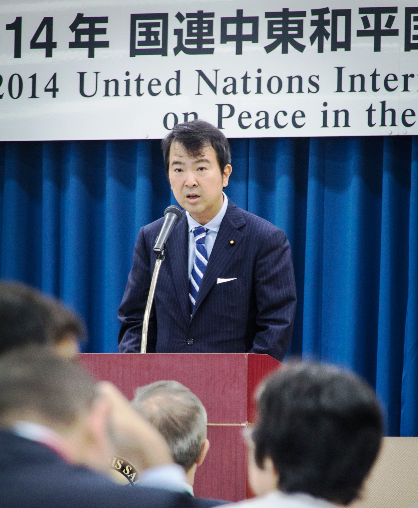 Opening statement from Mr. Hirotaka Ishihara